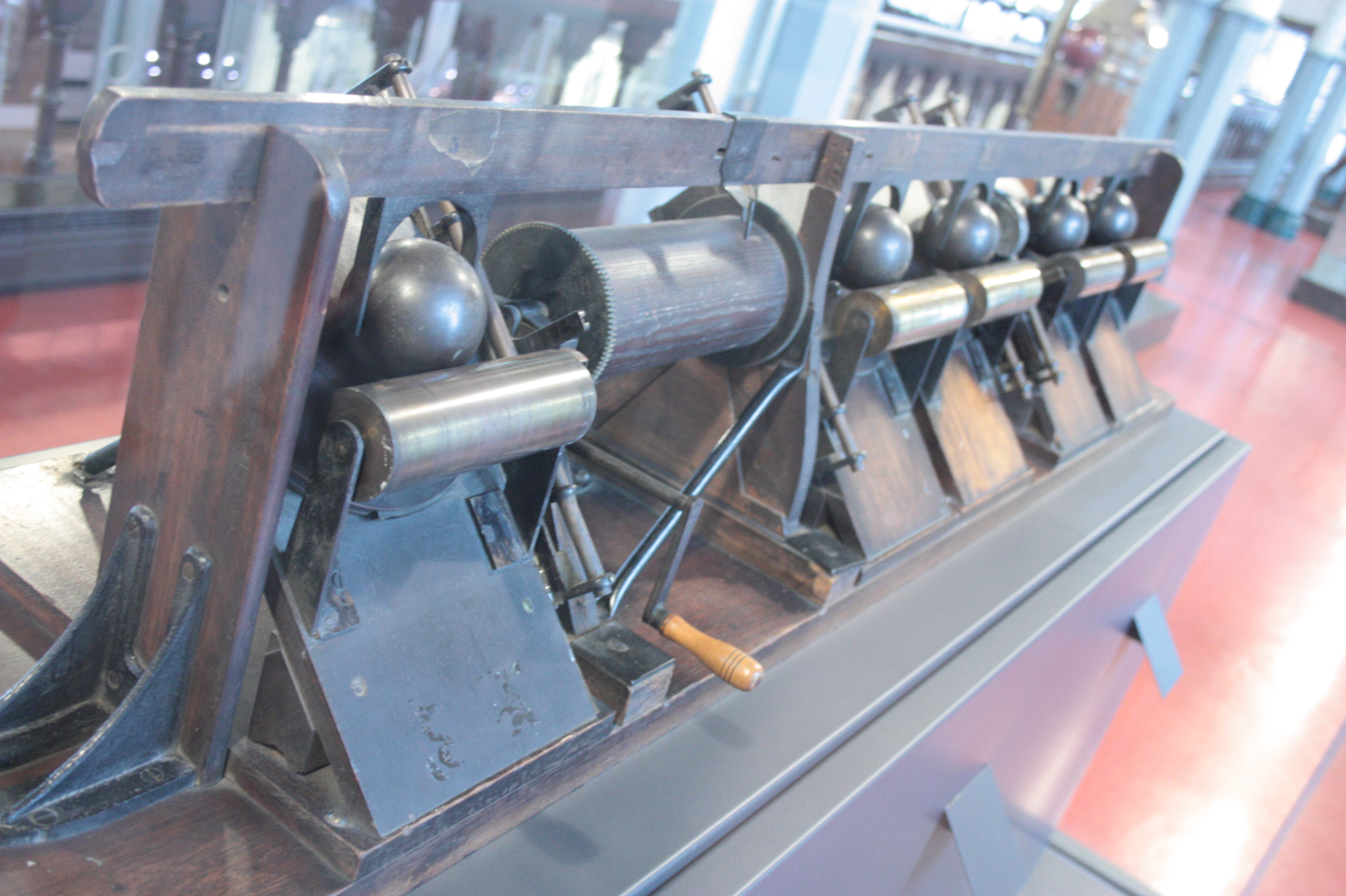 Lord Kelvin's harmonic analyser 1876, Hunterian Museum, Glasgow